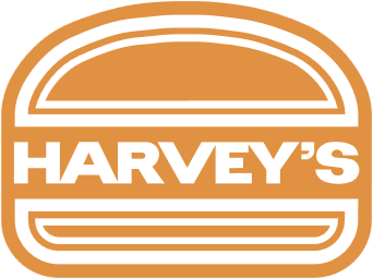 Logo of Harvey's (1959-1997)